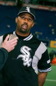 This photo was taken by user dlz28 and is released into the public domain. 17:32, 1 May 2006 . . Dlz28 . . 198×304 (12 KB)